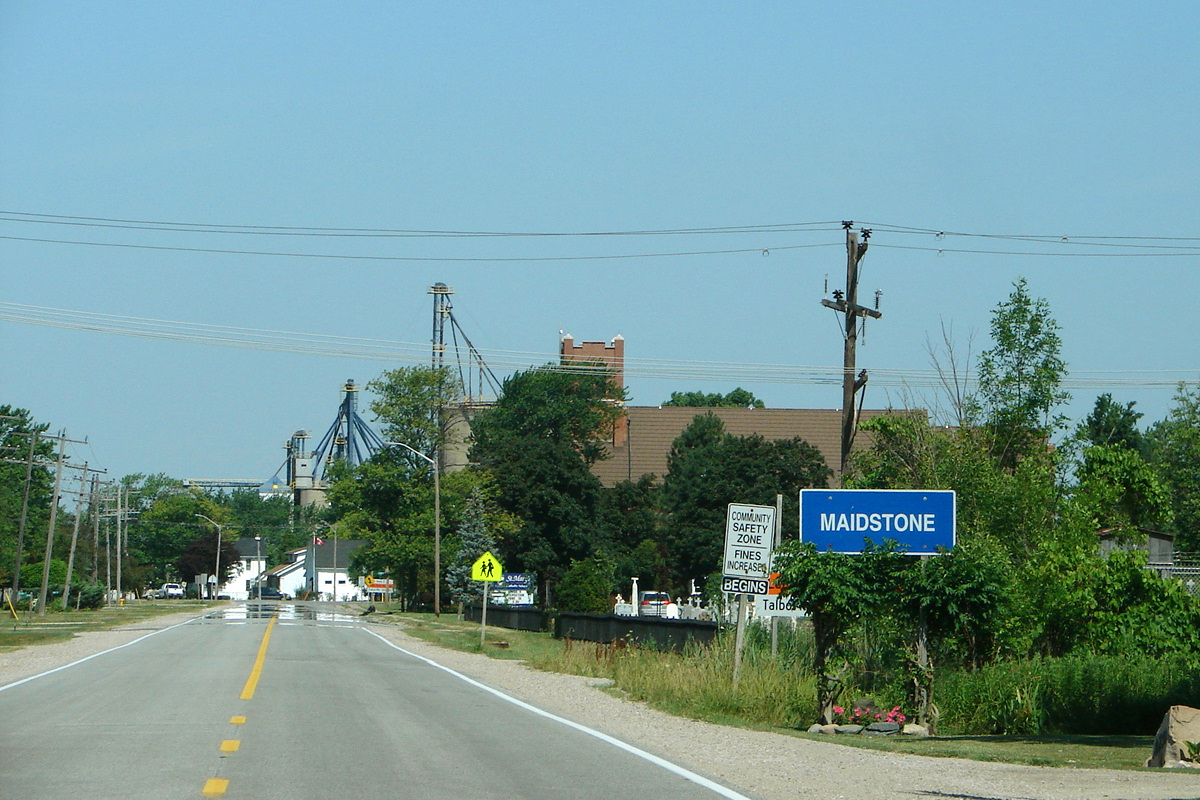 Maidstone (Lakeshore municipality), Ontario, Canada